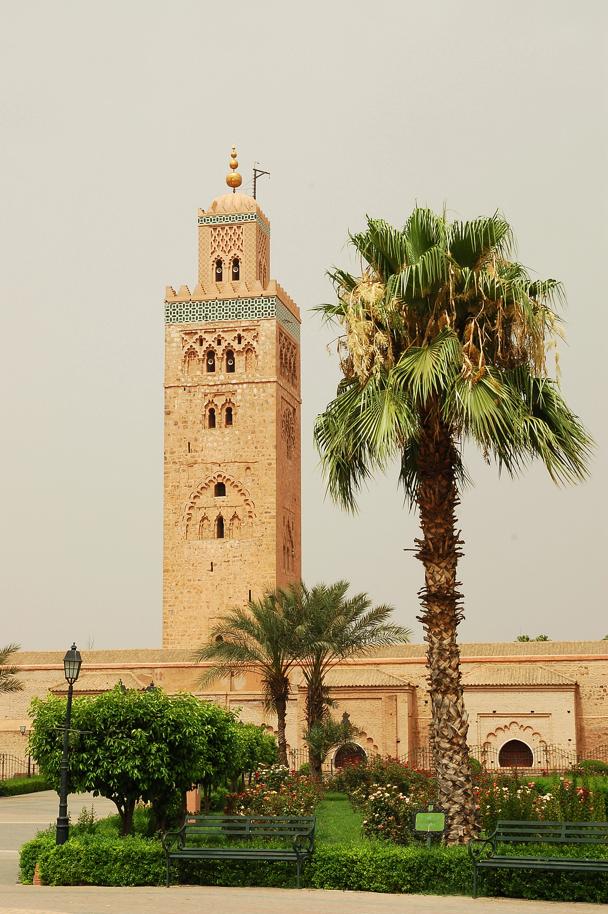 Maroc Marrakech city Koutoubia